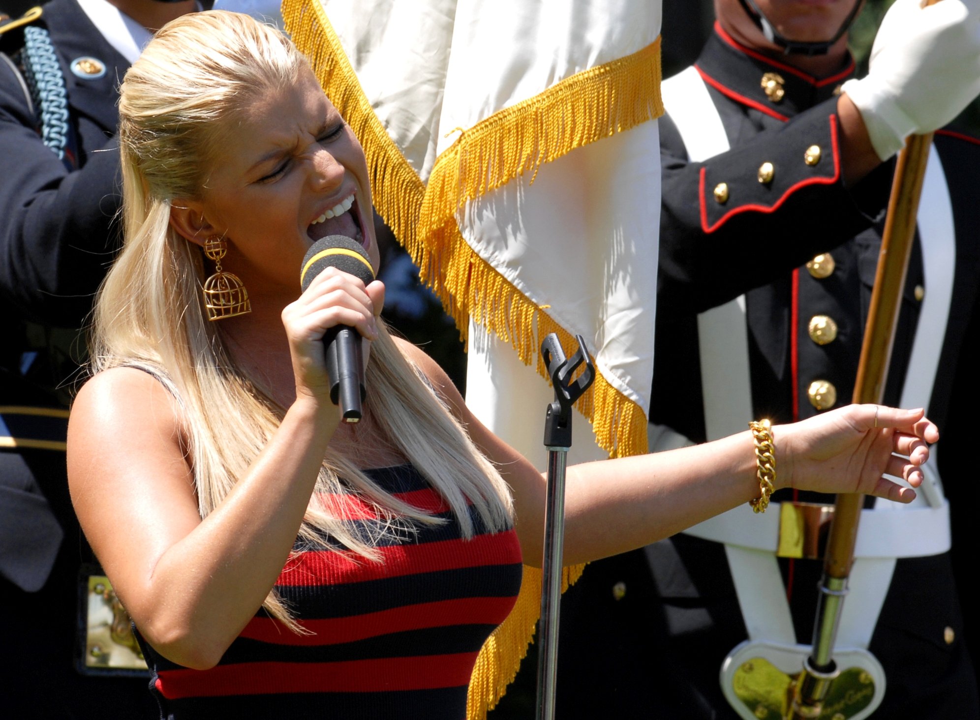 Jessica Simpson sings the National Anthem during the opening ceremonies for the 2009 AT&T National at Congressional Country Club, Bethesda, MD. The tournament is hosted by the PGA and the Tiger Woods Foundation in honor of all the men and women of the United States Armed Forces, July 1, 2009.